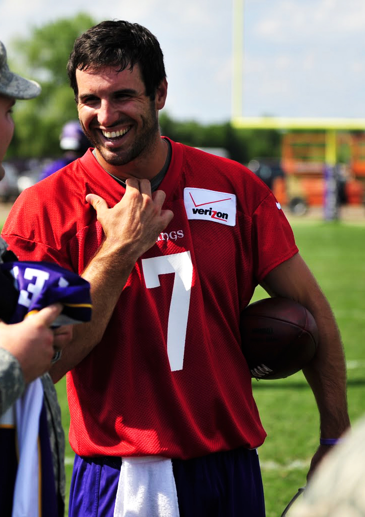 Minnesota Vikings QB Christian Ponder during summer training camp.